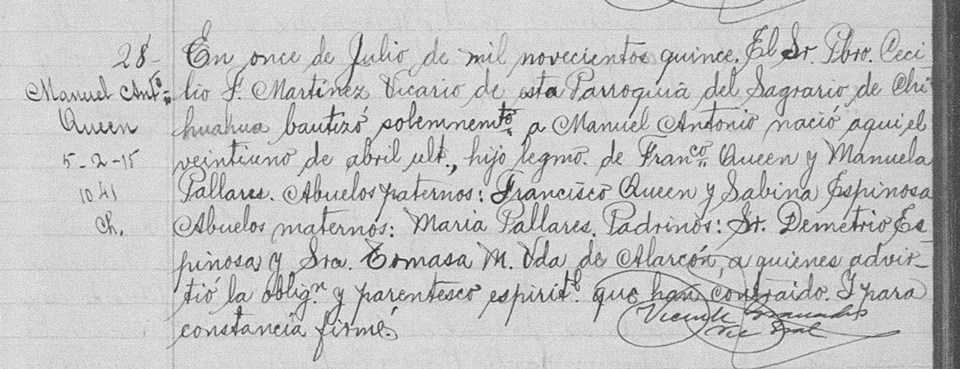 baptismal record